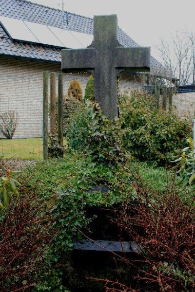 Cultural heritage monument No. 25 in Selfkant